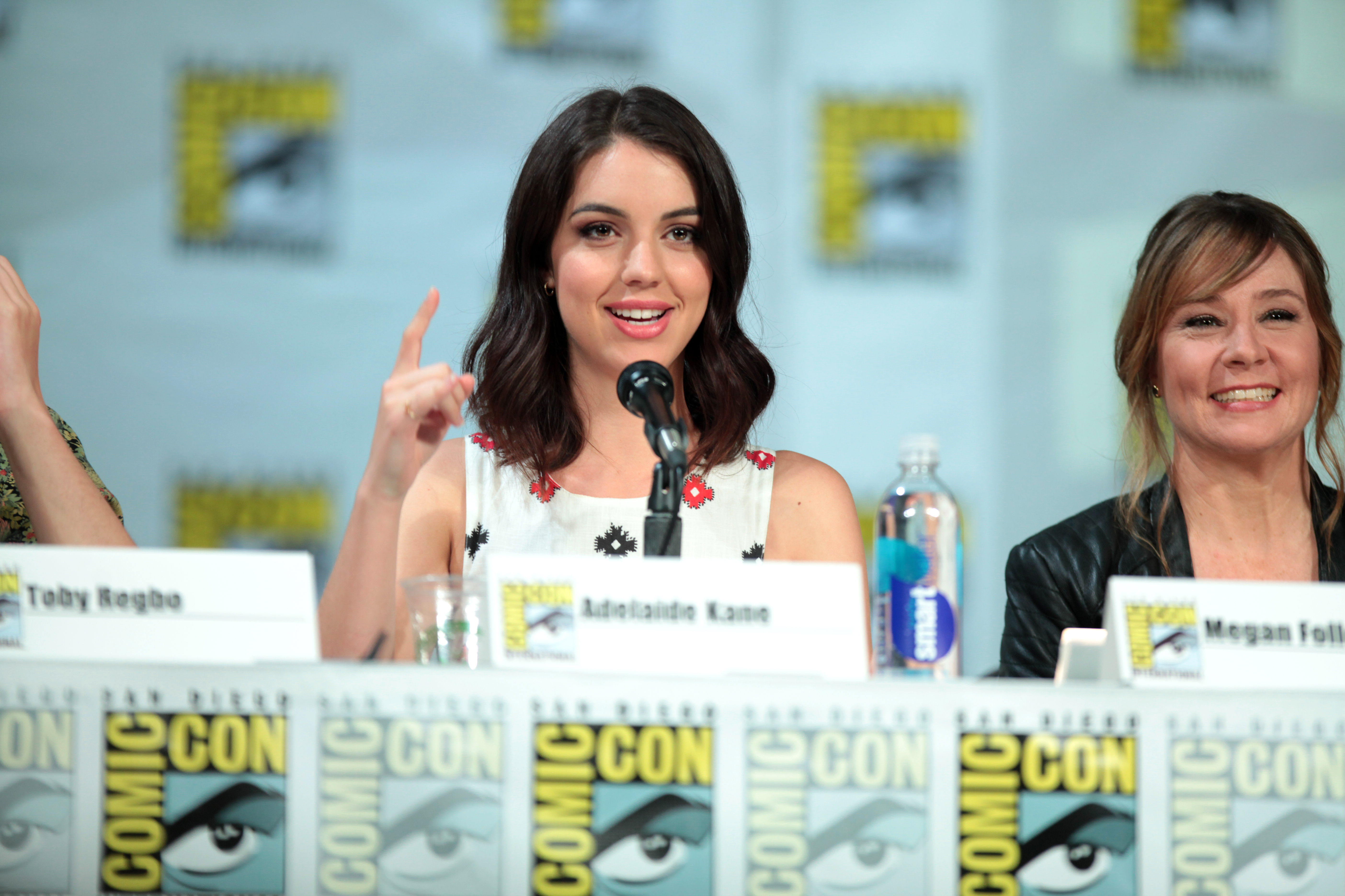 Adelaide Kane and Megan Follows speaking at the 2014 San Diego Comic Con International, for "Reign", at the San Diego Convention Center in San Diego, California.